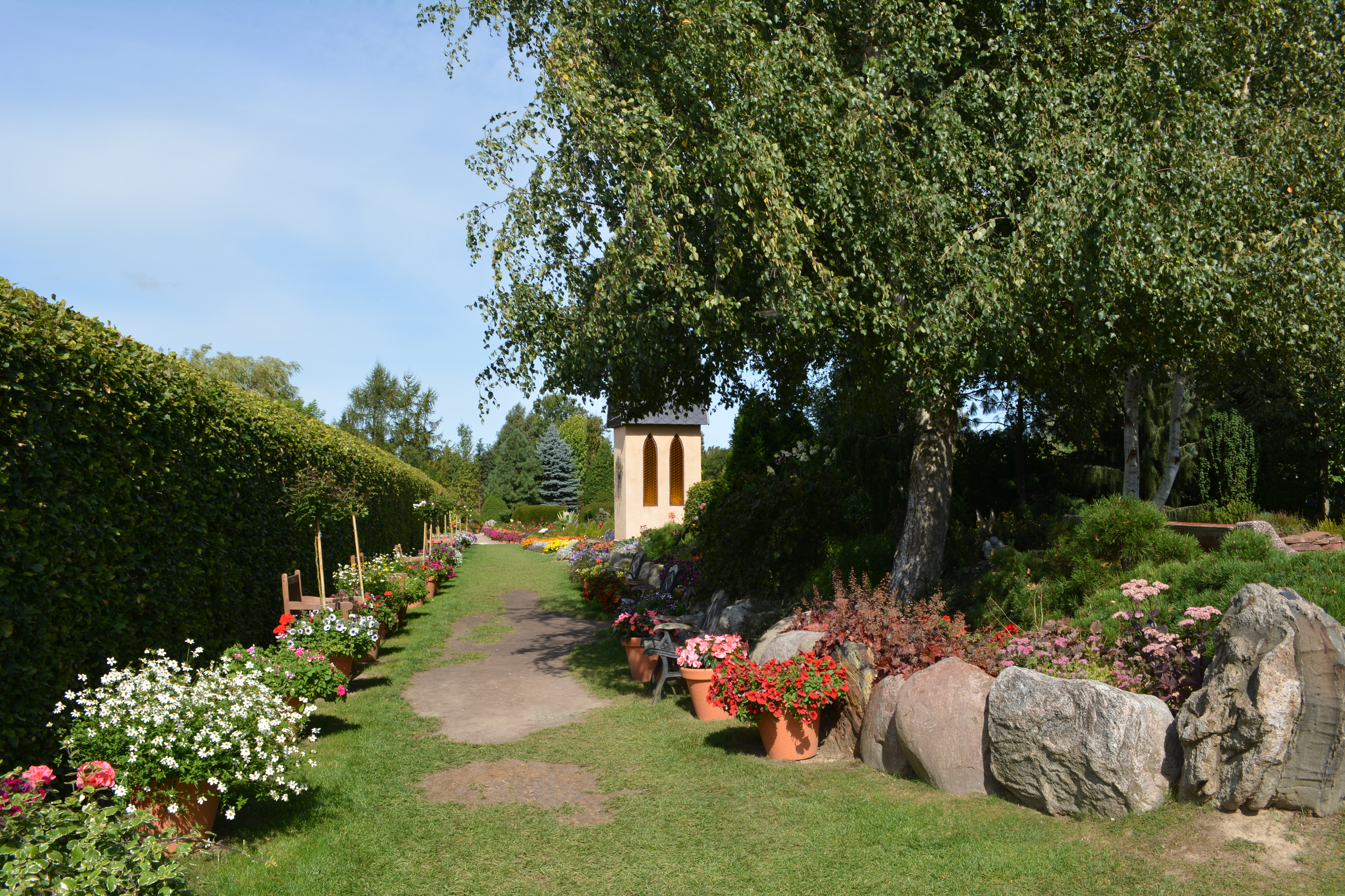 Dobrzyca- Englischer Garten